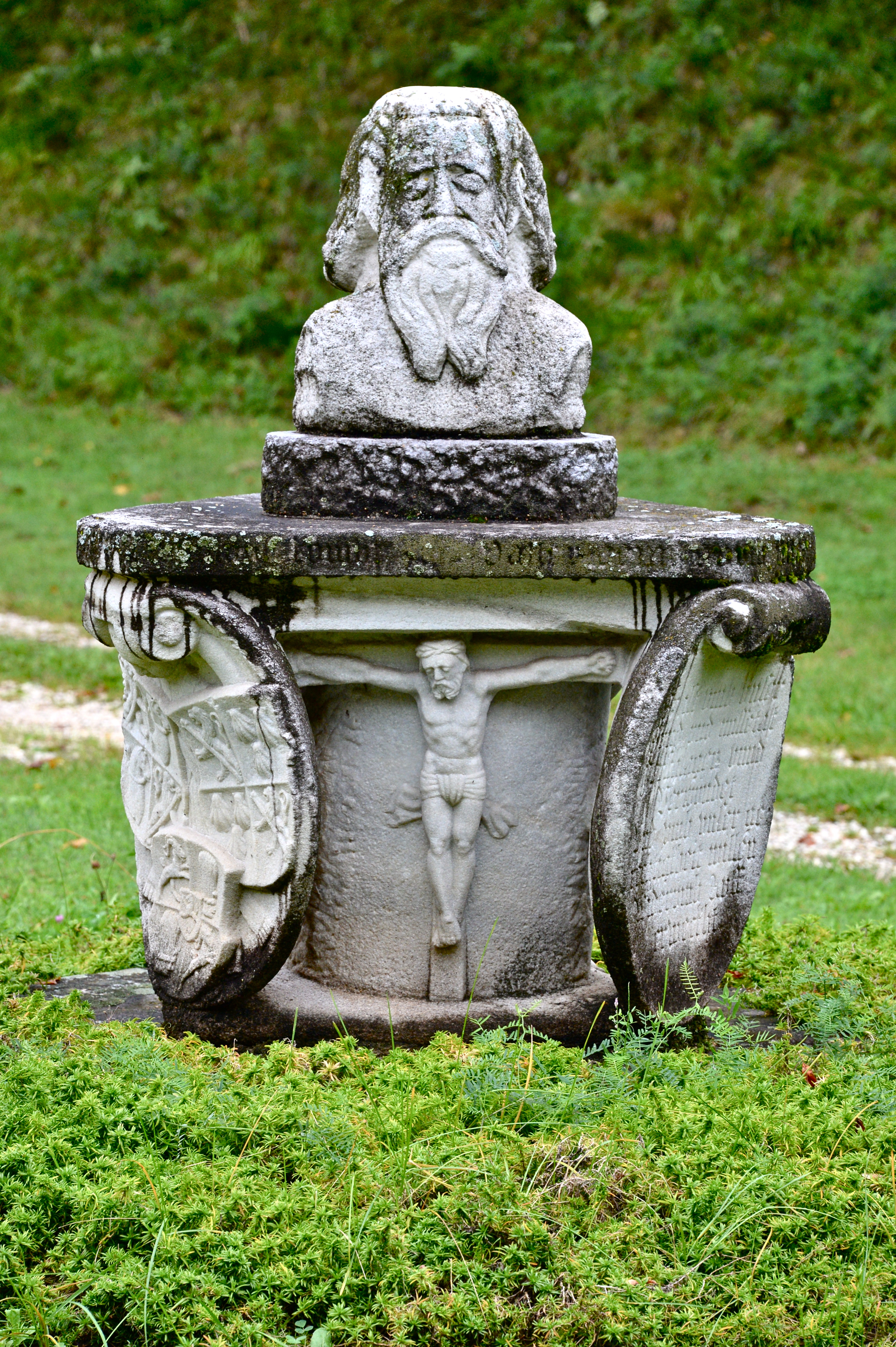 “Bishop stone” in front of the east portal of castle Reideben at Reideben #1, municipality Wolfsberg, district Wolfsberg, Carinthia, Austria, EU